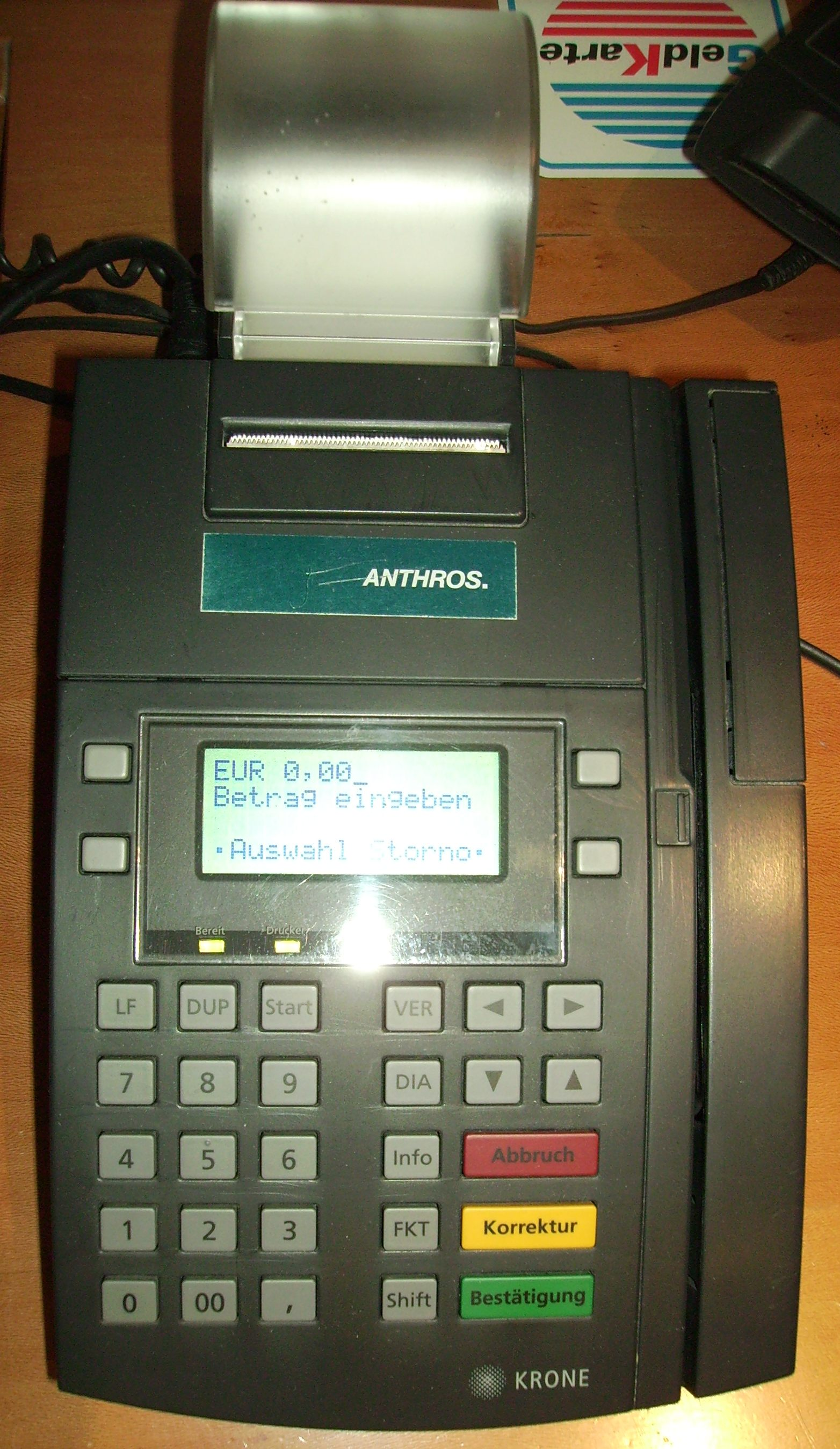 magnetic card swipe reader